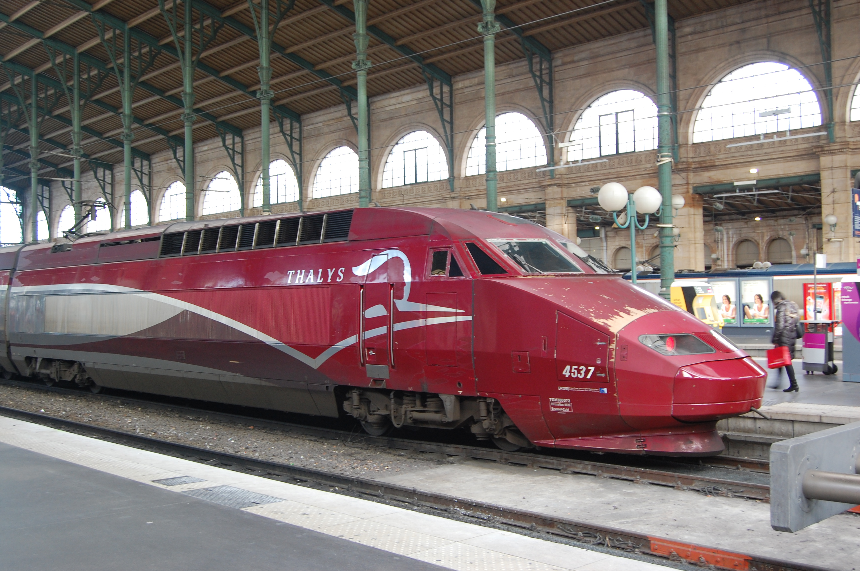 Thalys 4537 at Paris Gare du Nord